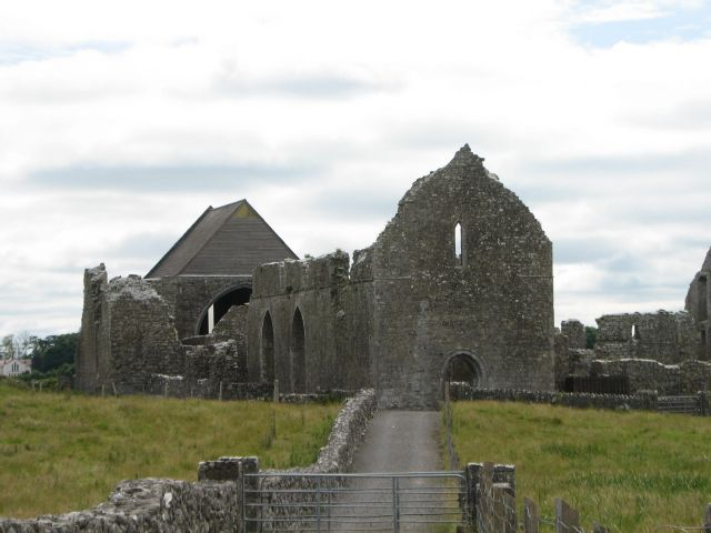 This is a magnificent building built in 1189.